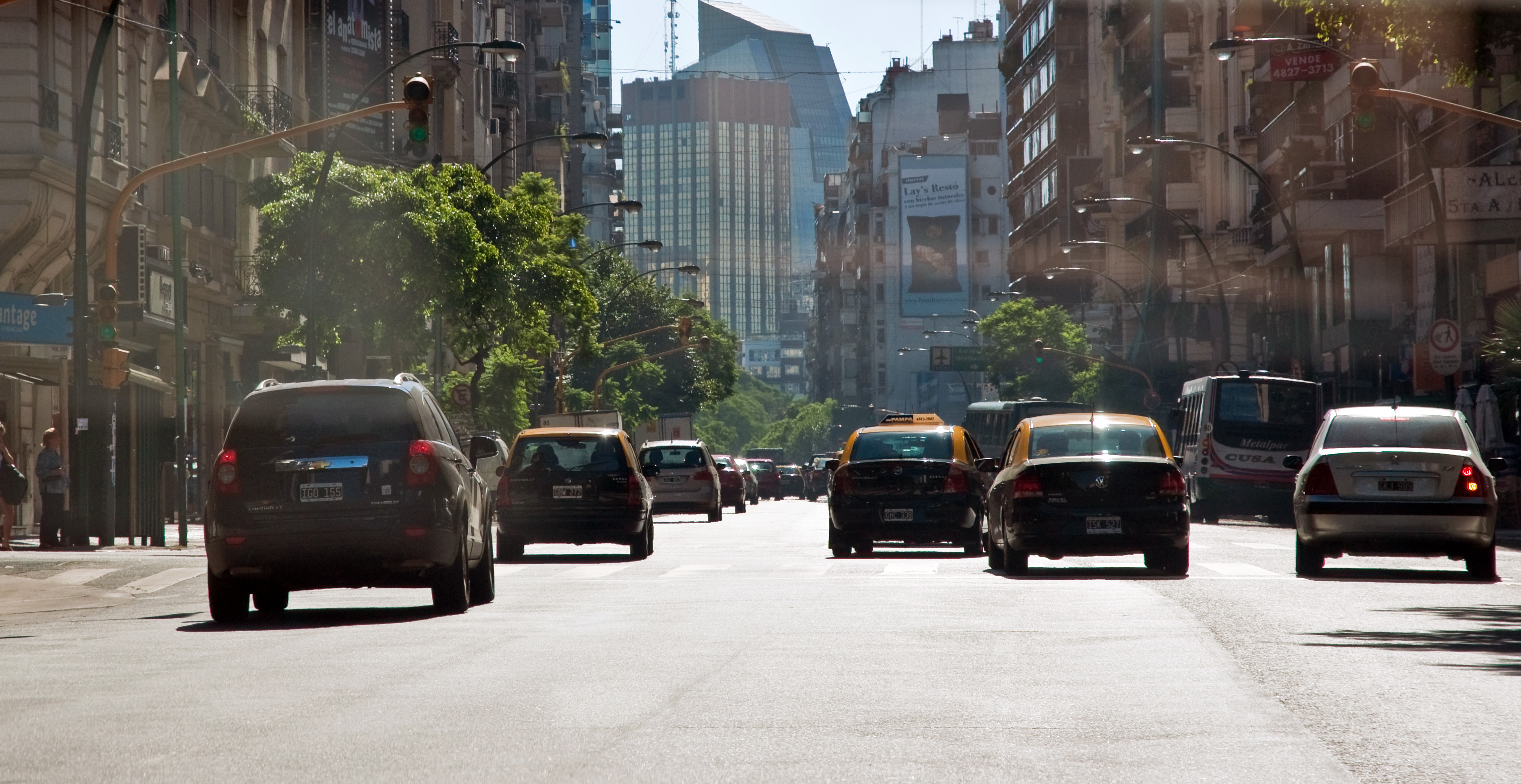 A Buenos Aires taxi ride, Argentina, 14th. Jan. 2011